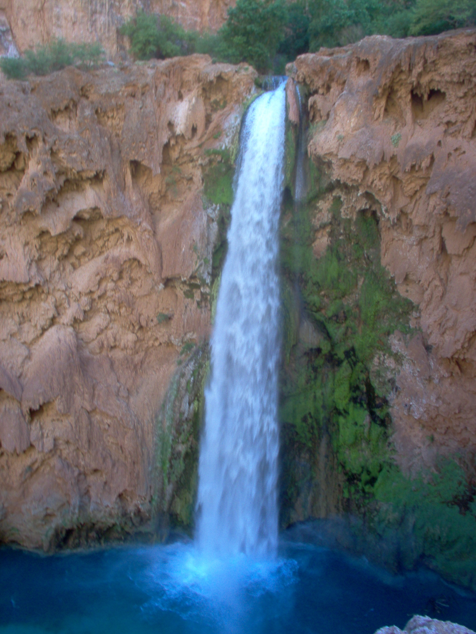 Photo of Mooney Falls. Taken by Chris Miller (myself) on May 30th, 2006.